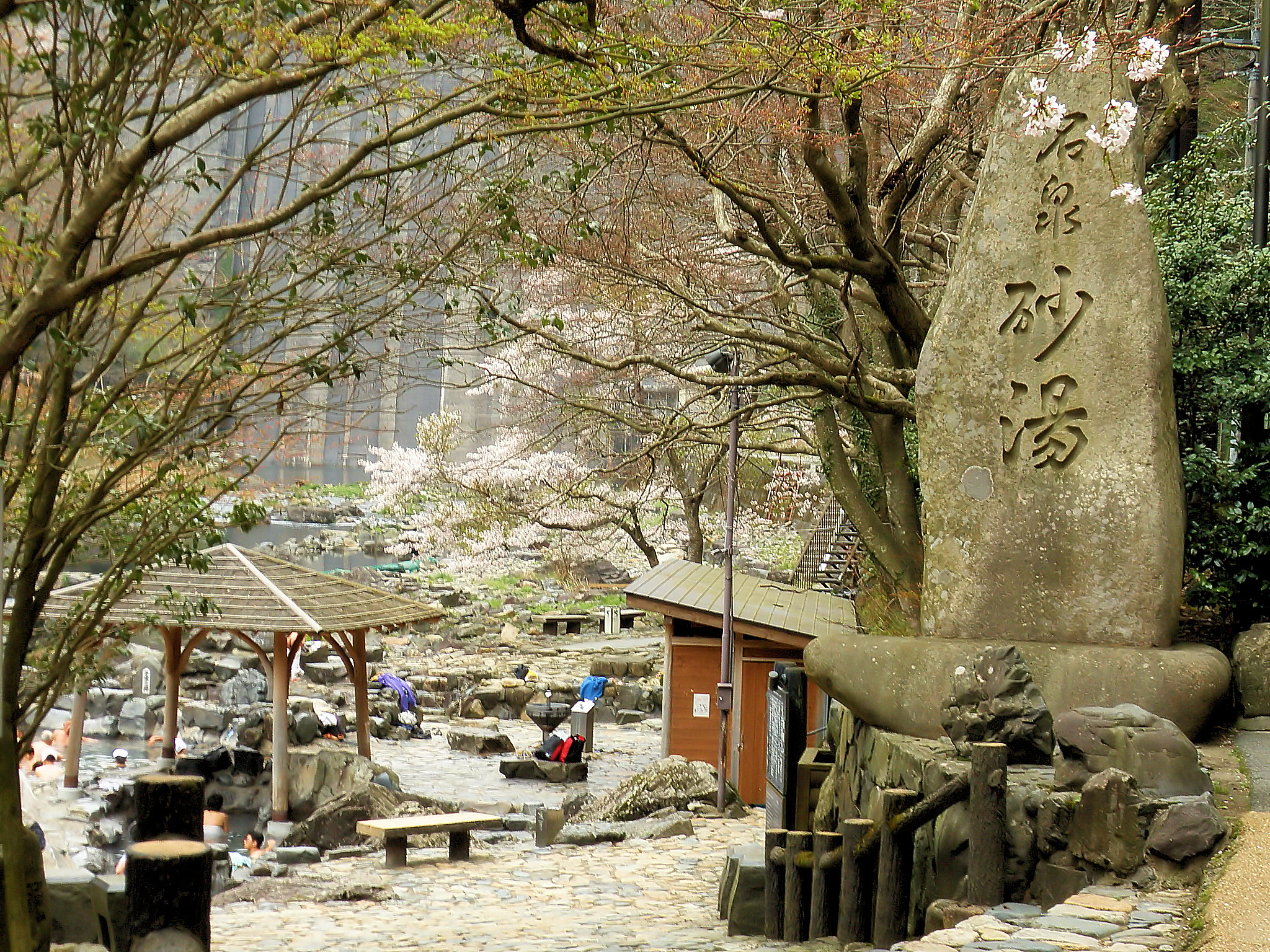 Yubara hot spring "Sunayu"